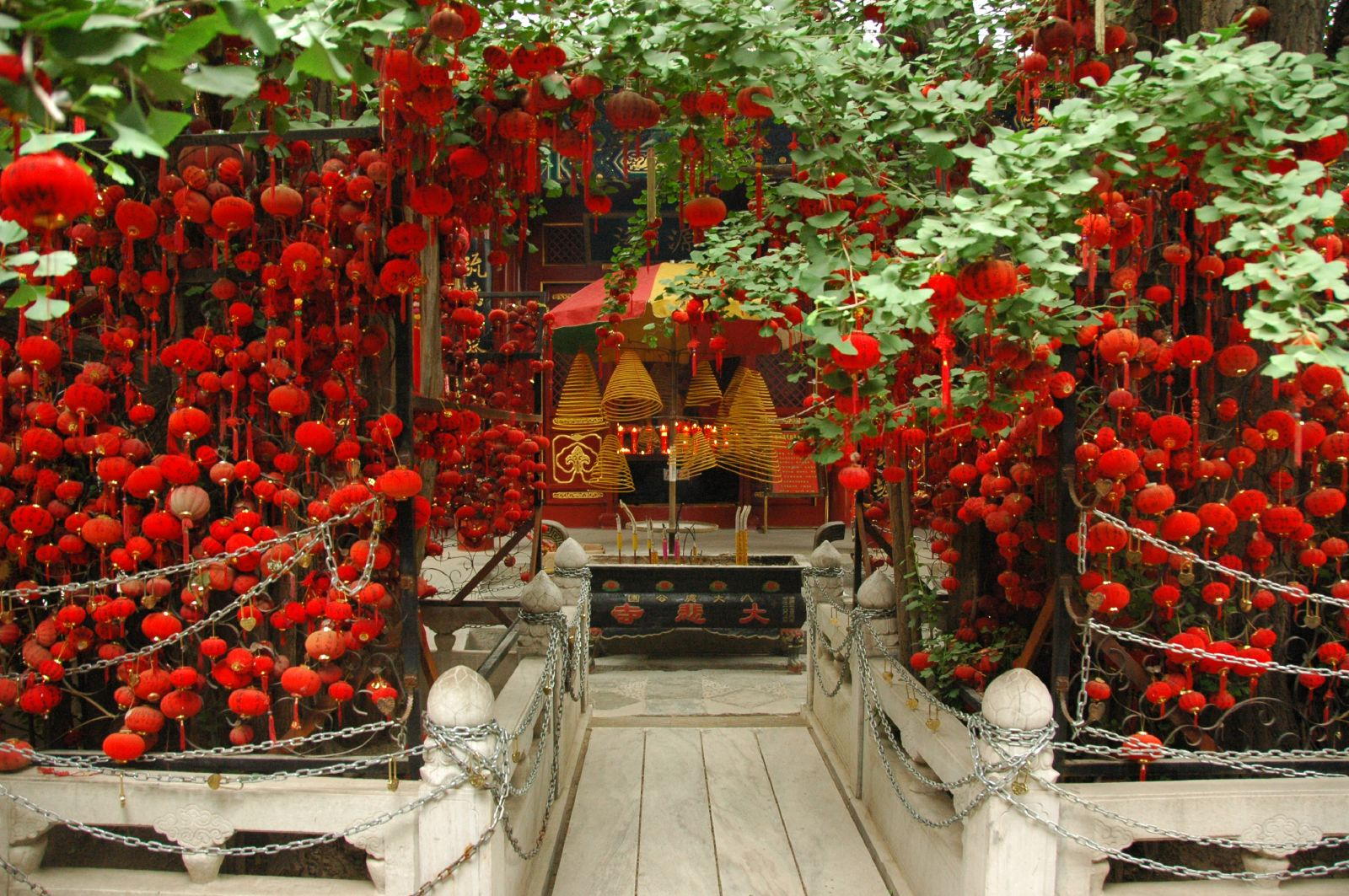 Dafei temple